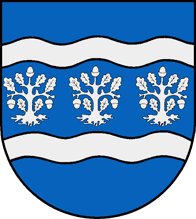 Coat of arms of the municipality Breiholz in Schleswig-Holstein, Germany.